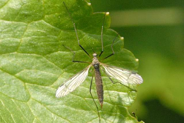 Phylidorea squalens from Commanster, Belgian High Ardennes .